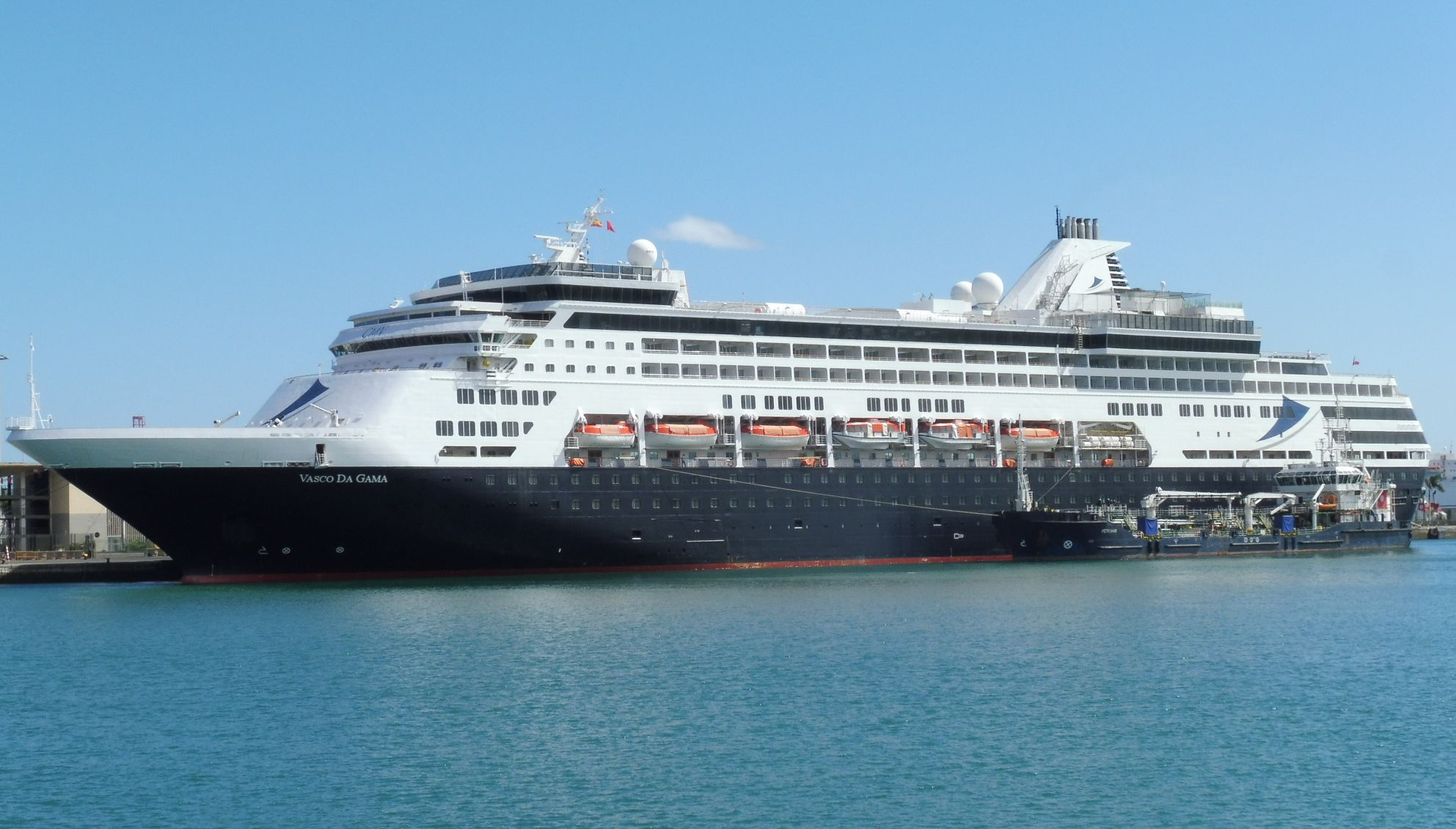 Cruise ship Vasco da Gama in Las Palmas, 17 October 2019